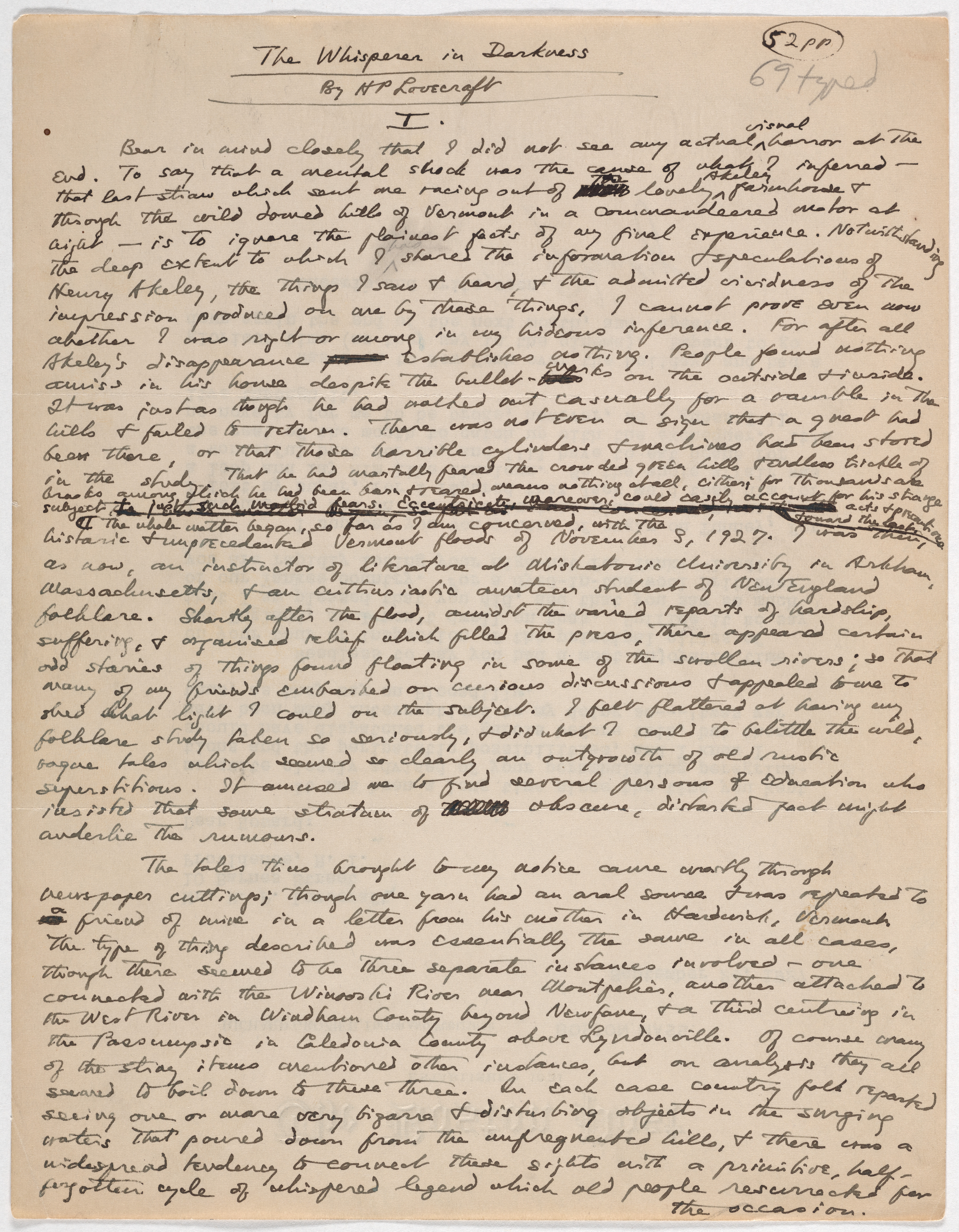 First page of the manuscript The Whisperer in Darkness.